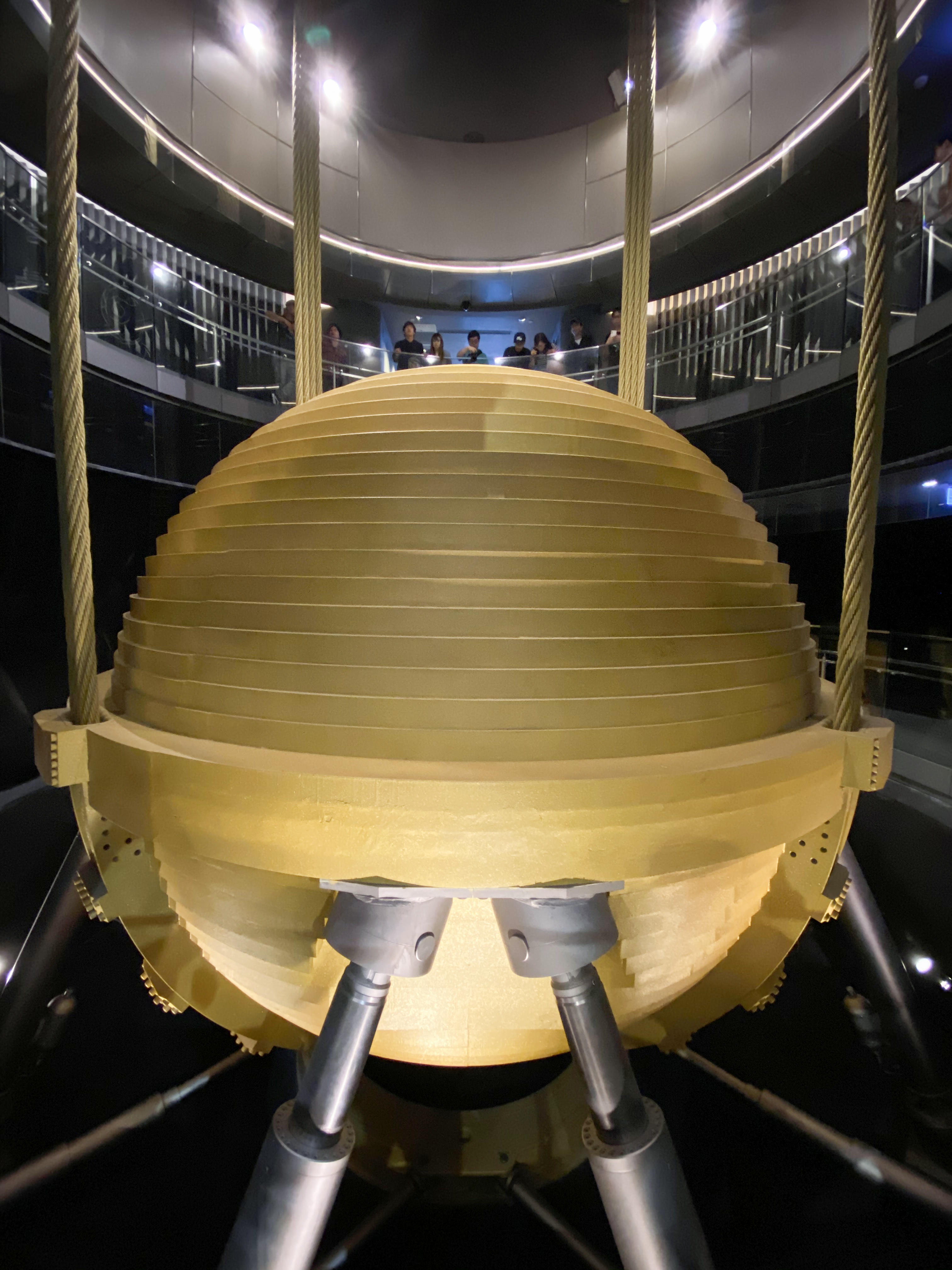 Mass damper of Taipei 101